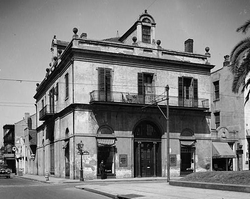 Louisiana State Bank, 403 Royal Street, New Orleans (Orleans Parish, Louisiana) (cropped)